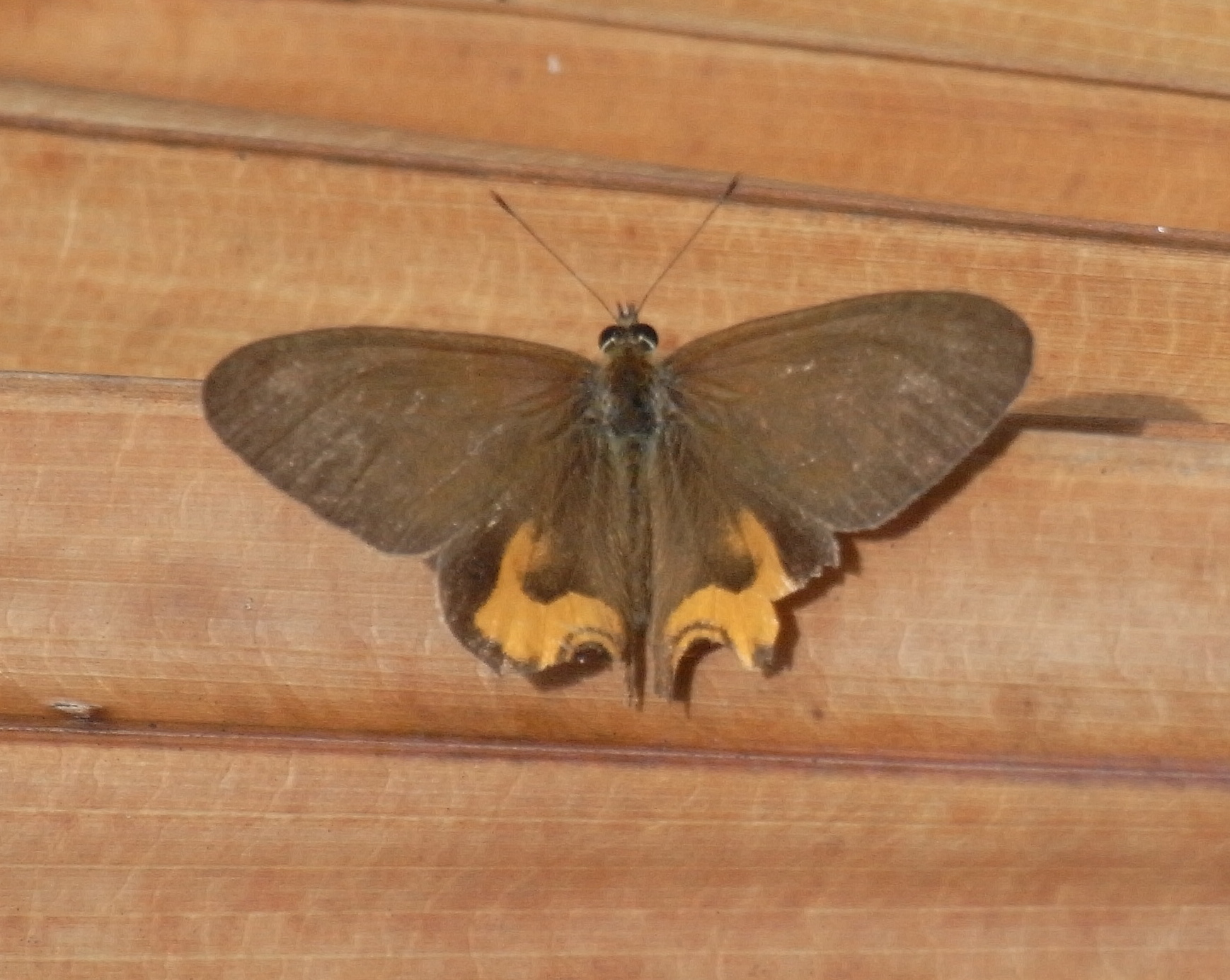 Common Brown Ringlet butterfly (Hypocysta metirius) near Wattle Forest, Royal National Park, Australia.